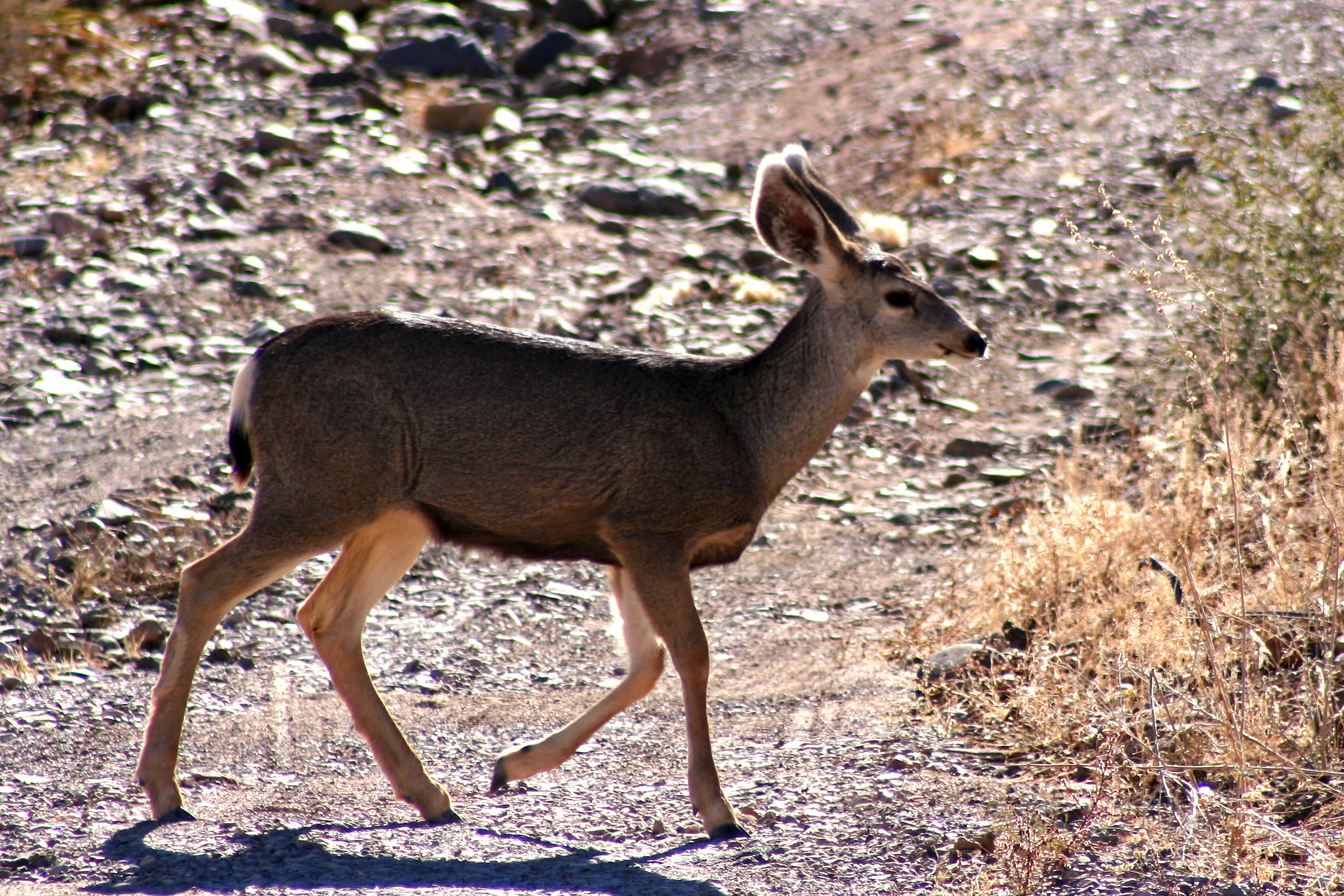 A young mule deer trots to the right of the frame. Taken near Truth or Consequences, New Mexico, United States of America.